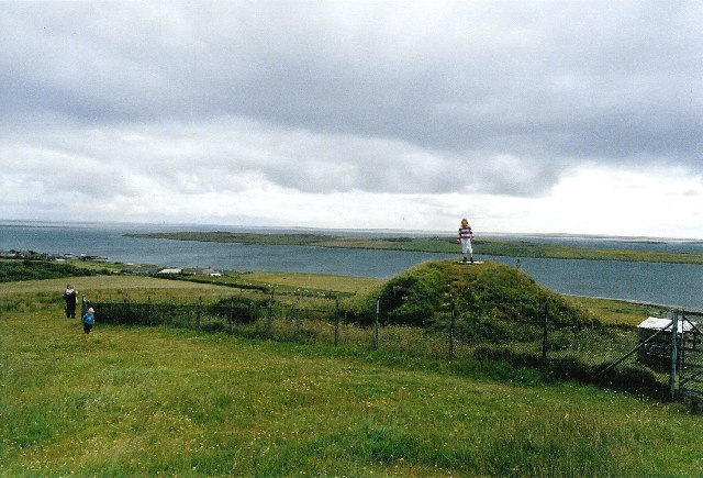 Taversoe Tuick cairn. Next to Trumland House lies this cairn - a rare 'double decker' with a small third chamber separate (jut behind the cairn in this picture). Behind is Wyre Sound and the island of Wyre. Looking south east.